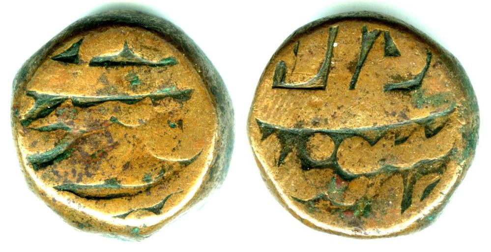 India - Moghul empire - Akbar - coin of Gobindpur mint